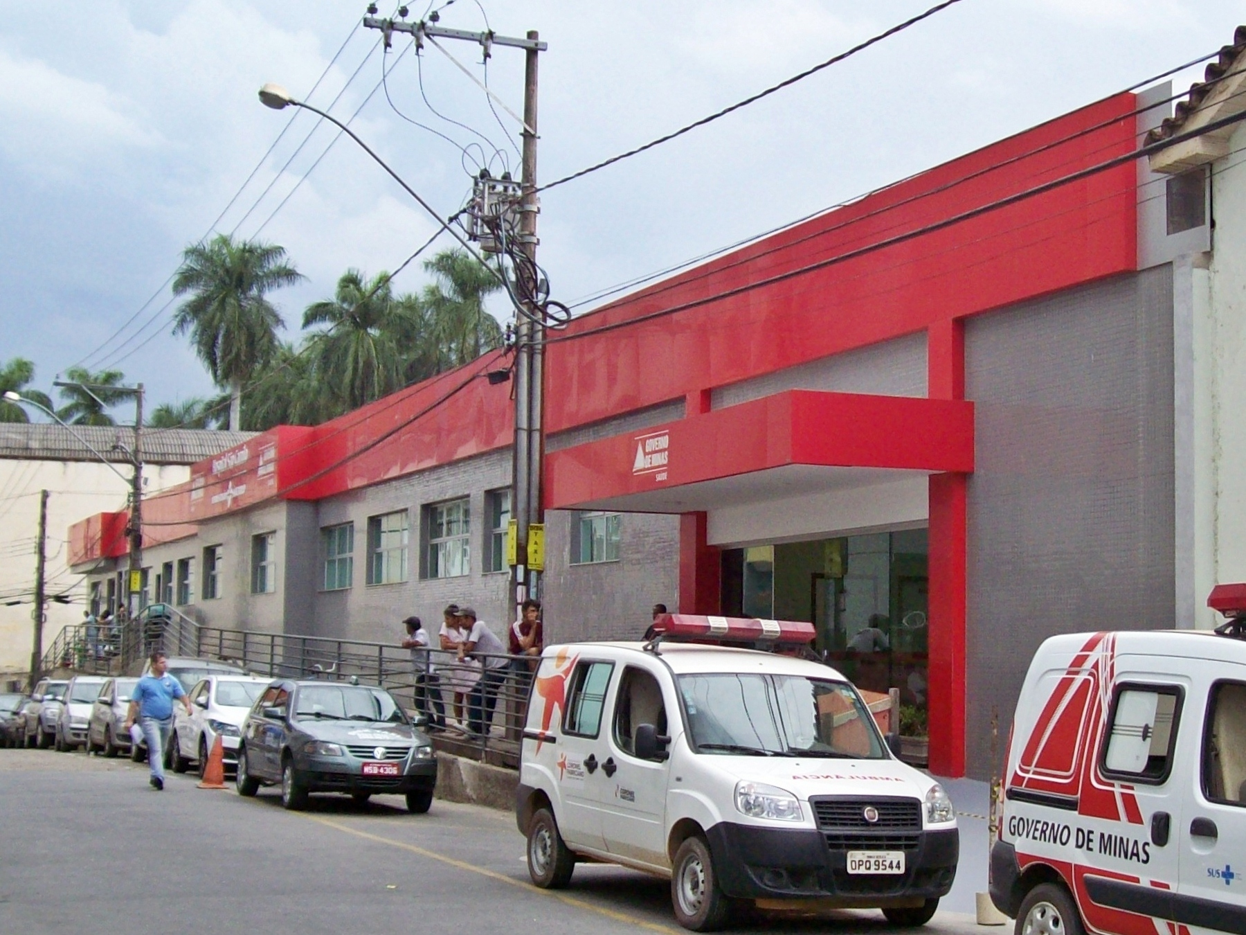 Main entrance of the São Camilo Hospital, in Coronel Fabriciano, Minas Gerais, Brazil.